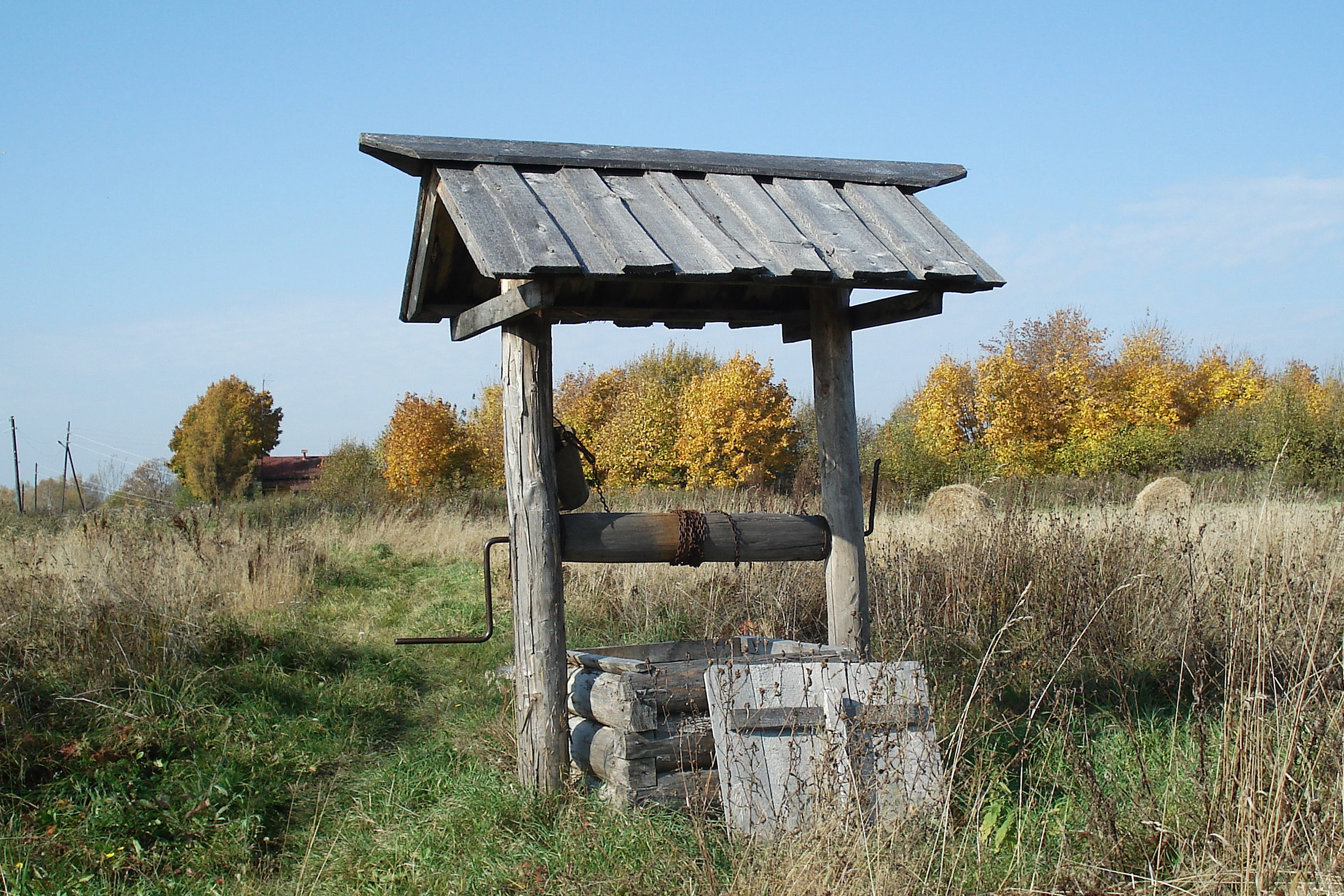 The Well in the Village of Khvoschi. Nizhegorodsksya oblast. Russia.